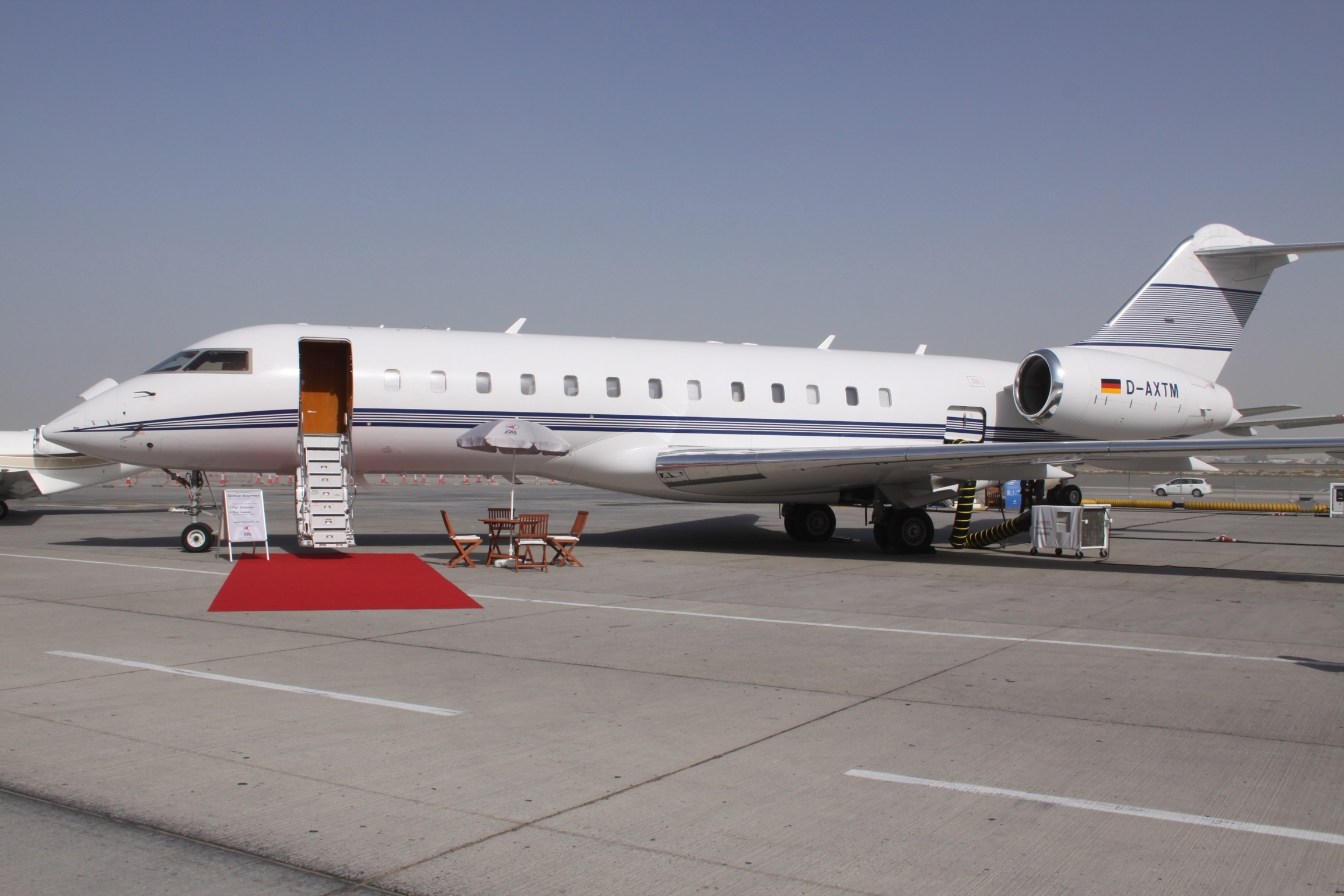 At Dubai International DXB